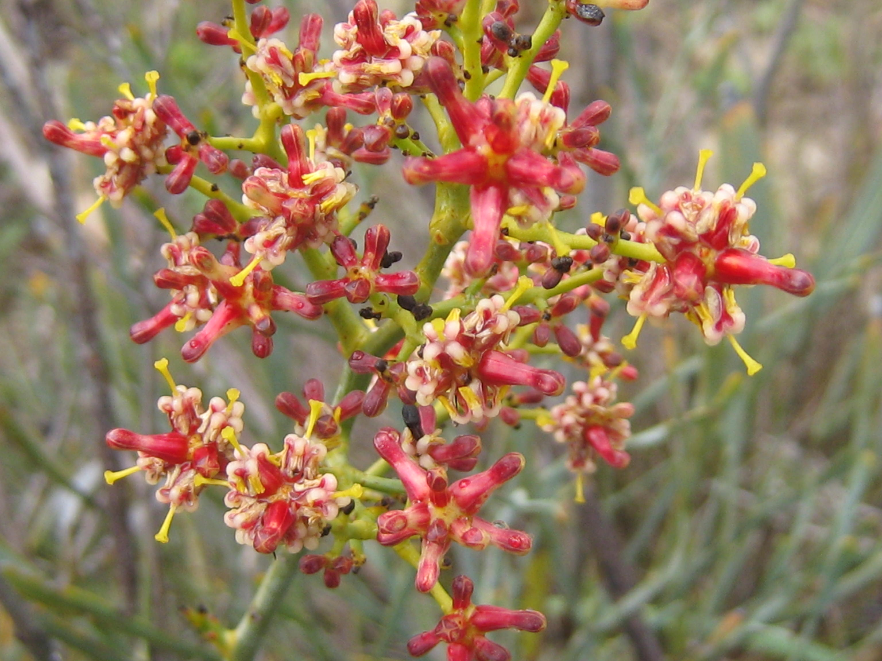 Stirlingia latifolia. Kensington Bushland Reserve, Perth, Western Australia